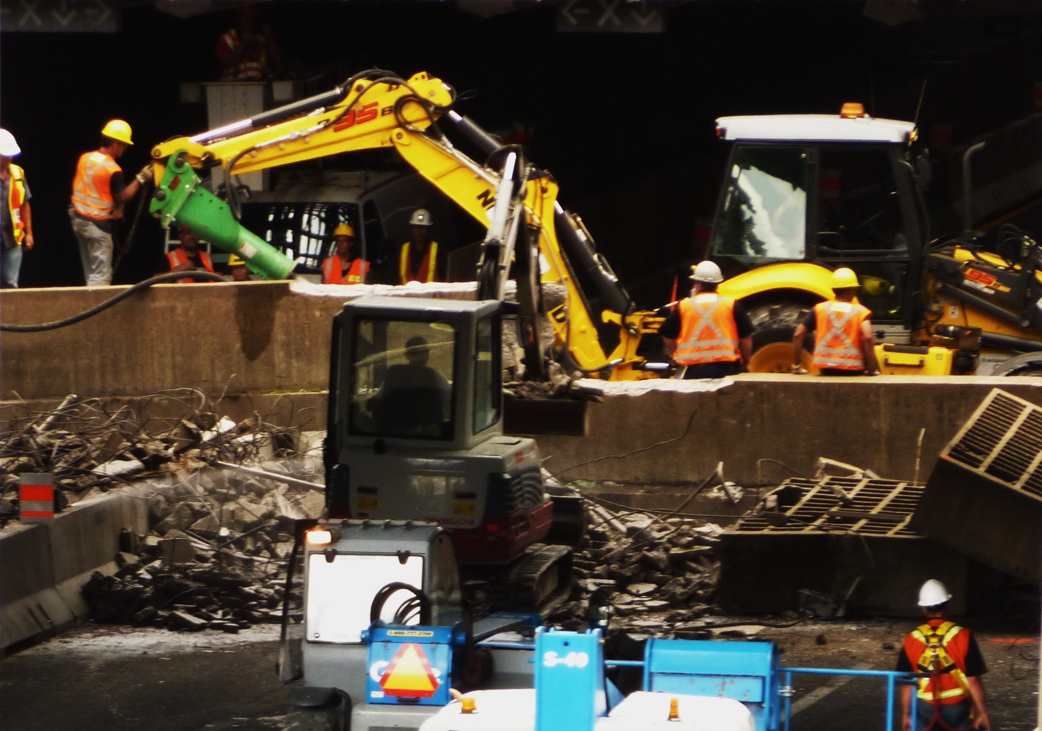 On July 31, 2011, part of the roof of the Ville-Marie Tunnel collapsed, sending large chunks of concrete to the road below. Fortunately, this happened on a Sunday when there was little traffic, and no cars were damaged by the collapse. Montreal, Quebec, Canada.